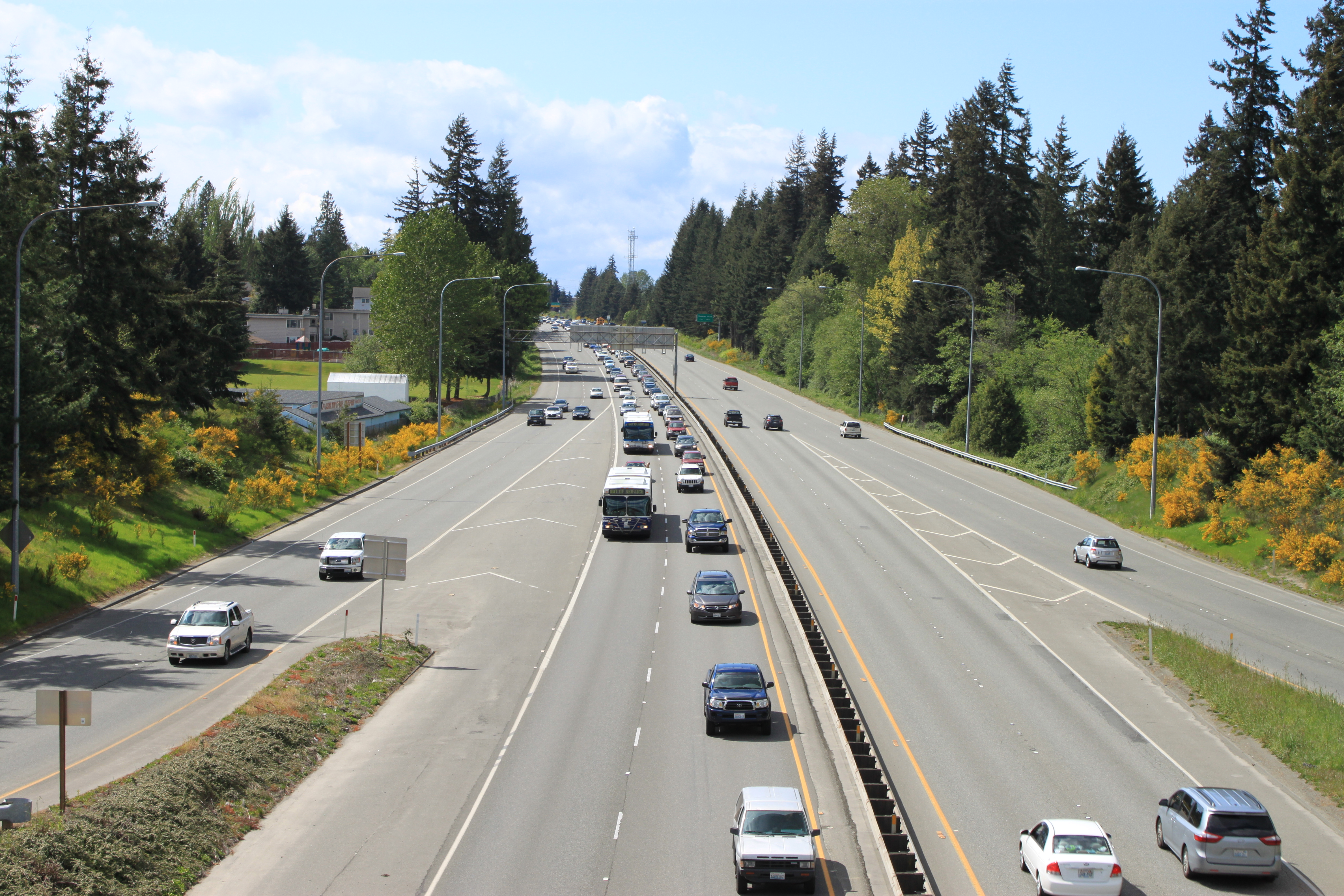 State Route 526 (named the Boeing Freeway) westbound viewed from a pedestrian overpass near Evergreen Way in Everett.